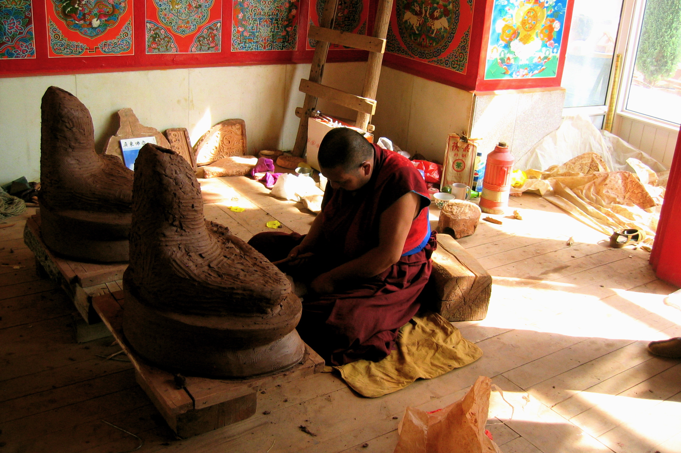 Longwu Temple (Lower Wutun Monastery) Tongren, Qinghai, China